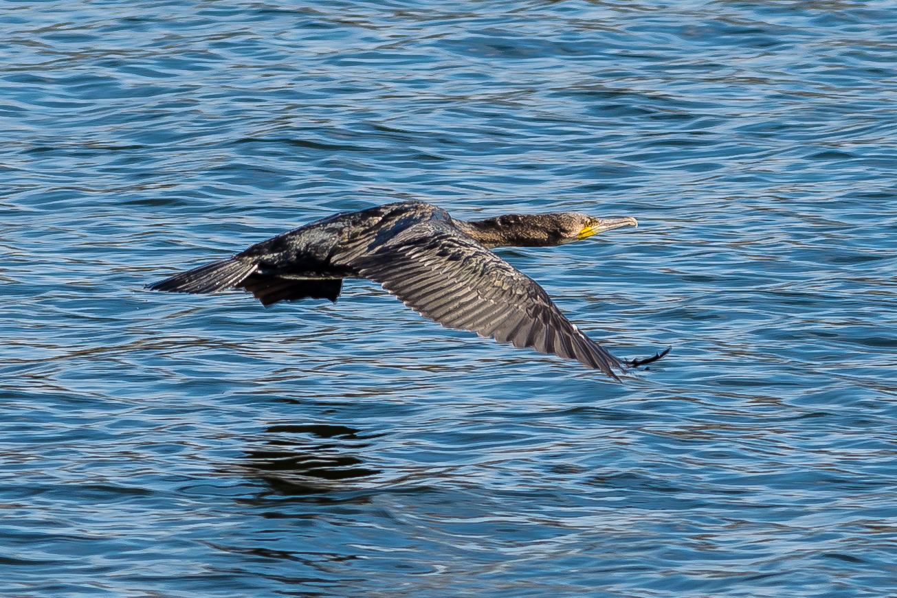 Low-flying Great cormorant over Norrström in Stockholm's inner city in July 2020.